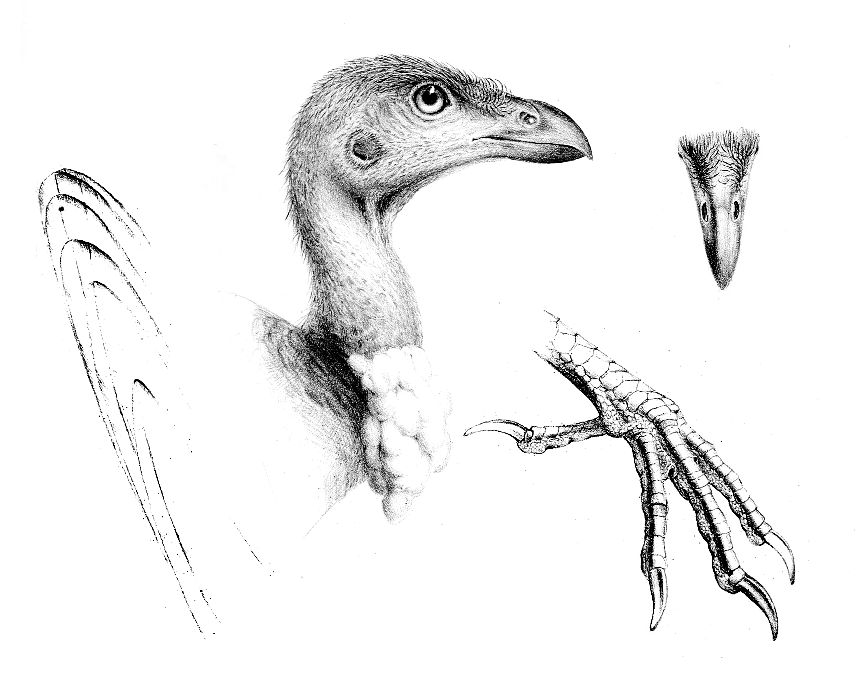 123 Irmied.v5JuUmandel t "VfaJton Wolf del ethtX. 1. MEGACEPHALQNrabnpes 2 TALEGAL*LA Lathami . ■